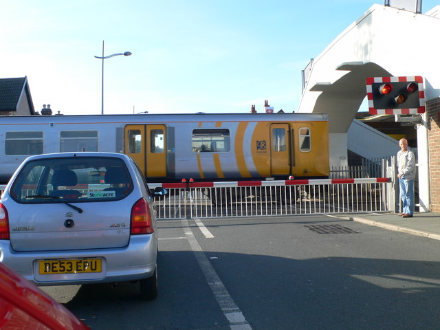 The 5.20 for West Kirby leaving Hoylake